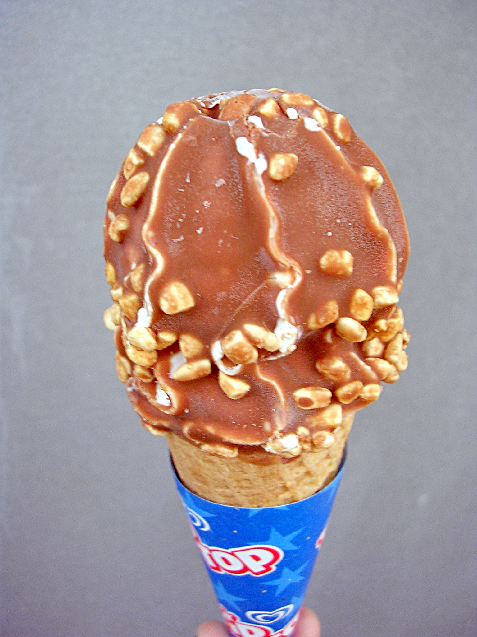 Ice cream cone photographed in Sweden.